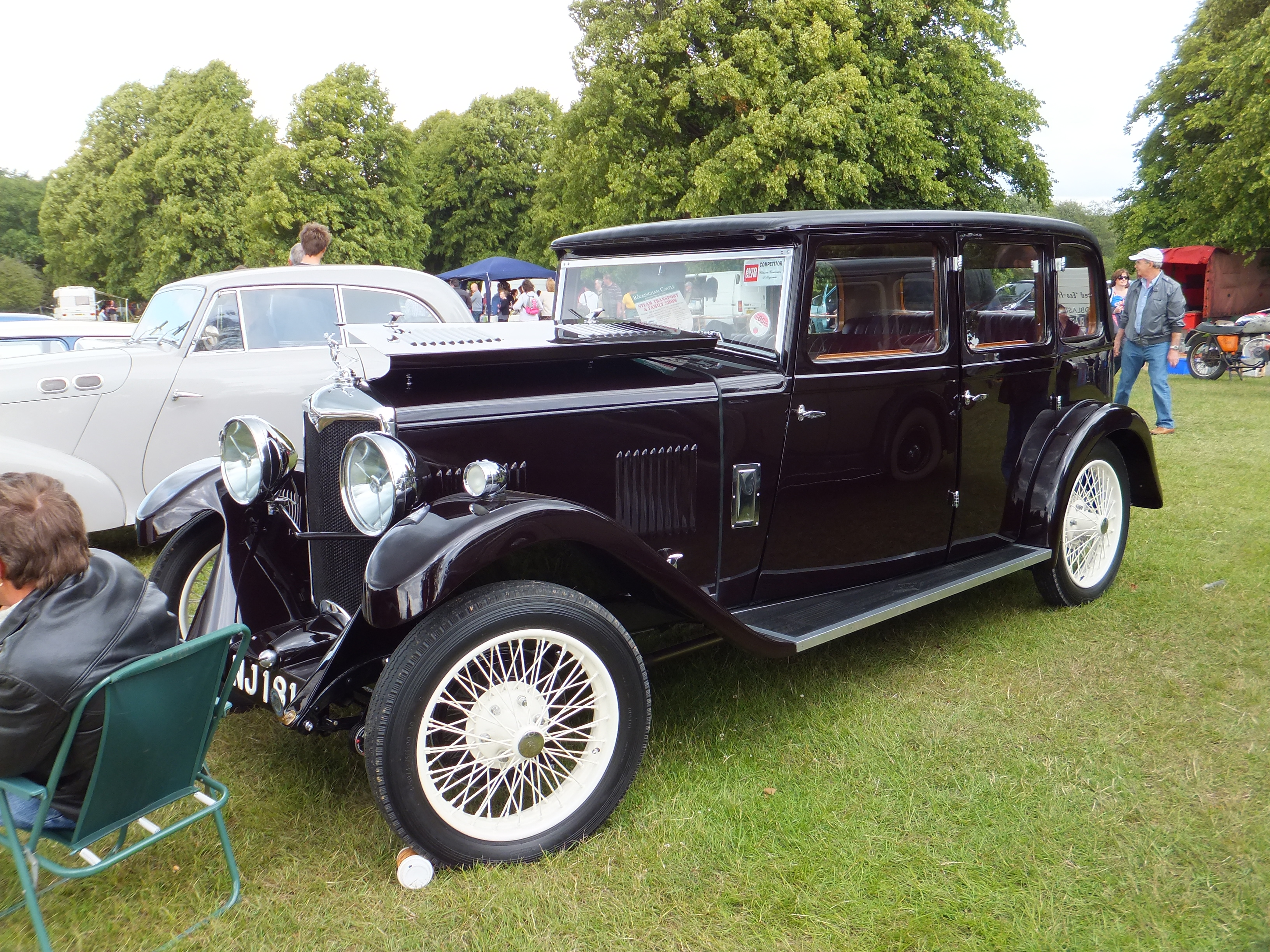 Riley 14/6 circa 1933 —body possibly Winchester